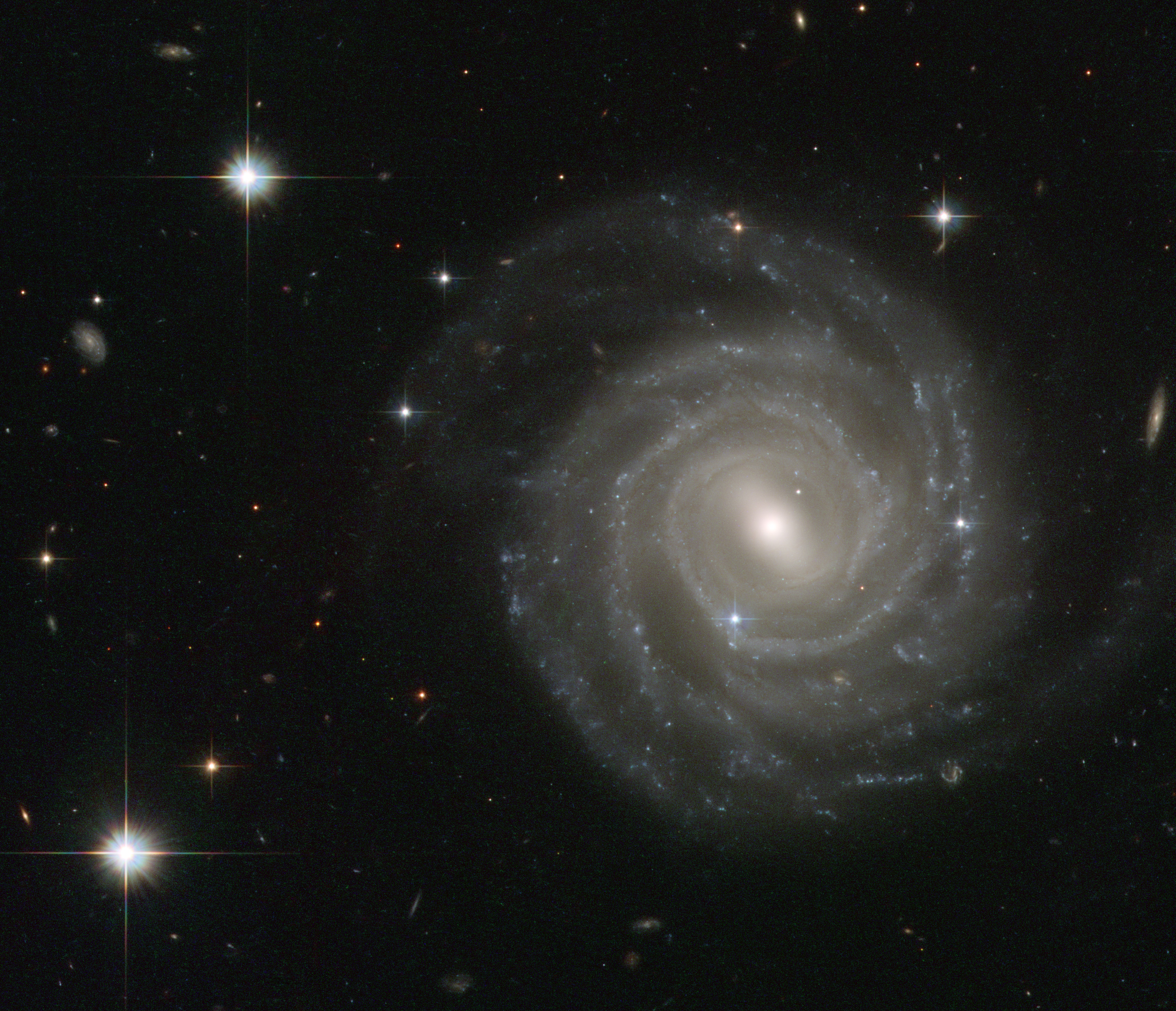 The galaxy captured in this image, called UGC 12158, certainly isn’t camera-shy: this spiral stunner is posing face-on to the NASA/ESA Hubble Space Telescope’s Advanced Camera for Surveys, revealing its structure in fine detail. UGC 12158 is an excellent example of a barred spiral galaxy in the Hubble sequence — a scheme used to categorise galaxies based on their shapes. Barred spirals, as the name suggest, feature spectacular swirling arms of stars that emanate from a bar-shaped centre. Such bar structures are common, being found in about two thirds of spiral galaxies, and are thought to act as funnels, guiding gas to their galactic centres where it accumulates to form newborn stars. These aren’t permanent structures: astronomers think that they slowly disperse over time, so that the galaxies eventually evolve into regular spirals. The appearance of a galaxy changes little over millions of years, but this image also contains a short-lived and brilliant interloper — the bright blue star just to the lower left of the centre of the galaxy is very different from the several foreground stars seen in the image. It is in fact a supernova inside UGC 12158 and much further away than the Milky Way stars in the field — at a distance of about 400 million light-years! This stellar explosion, called SN 2004ef, was first spotted by two British amateur astronomers in September 2004 and the Hubble data shown here form part of the follow-up observations. This picture was created from images taken with the Wide Field Channel of Hubble’s Advanced Camera for Surveys. Images through blue (F475W, coloured blue), yellow (F606W, coloured green) and red (F814W, coloured red) as well as a filter that isolates the light from glowing hydrogen (F658W, also coloured red) have been included. The exposure times were 1160 s, 700 s, 700 s and 1200 s respectively. The field of view is about 2.3 arcminutes across.